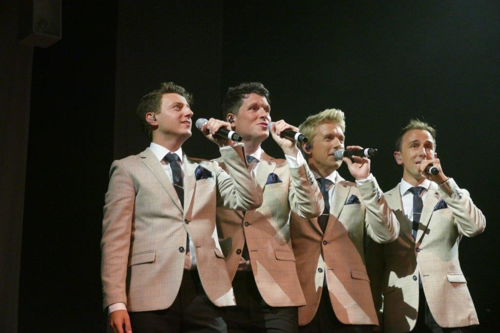 G4(Band) 2018 lineup taken at Skegness at the start of the second leg of their 2018 G4 live tour